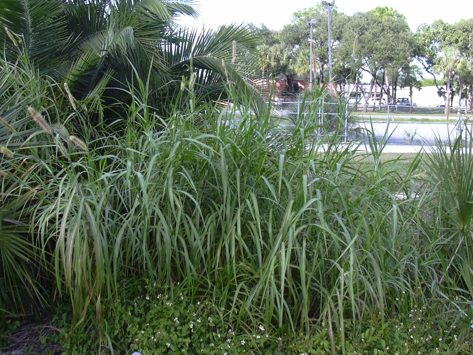 Pennisetum purpureum (habit). Location: Florida, Sarasota